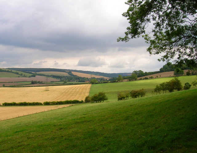 South Downs near Charlton. Taken from the Chalk Road track and looking across a valley towards the village of East Dean.